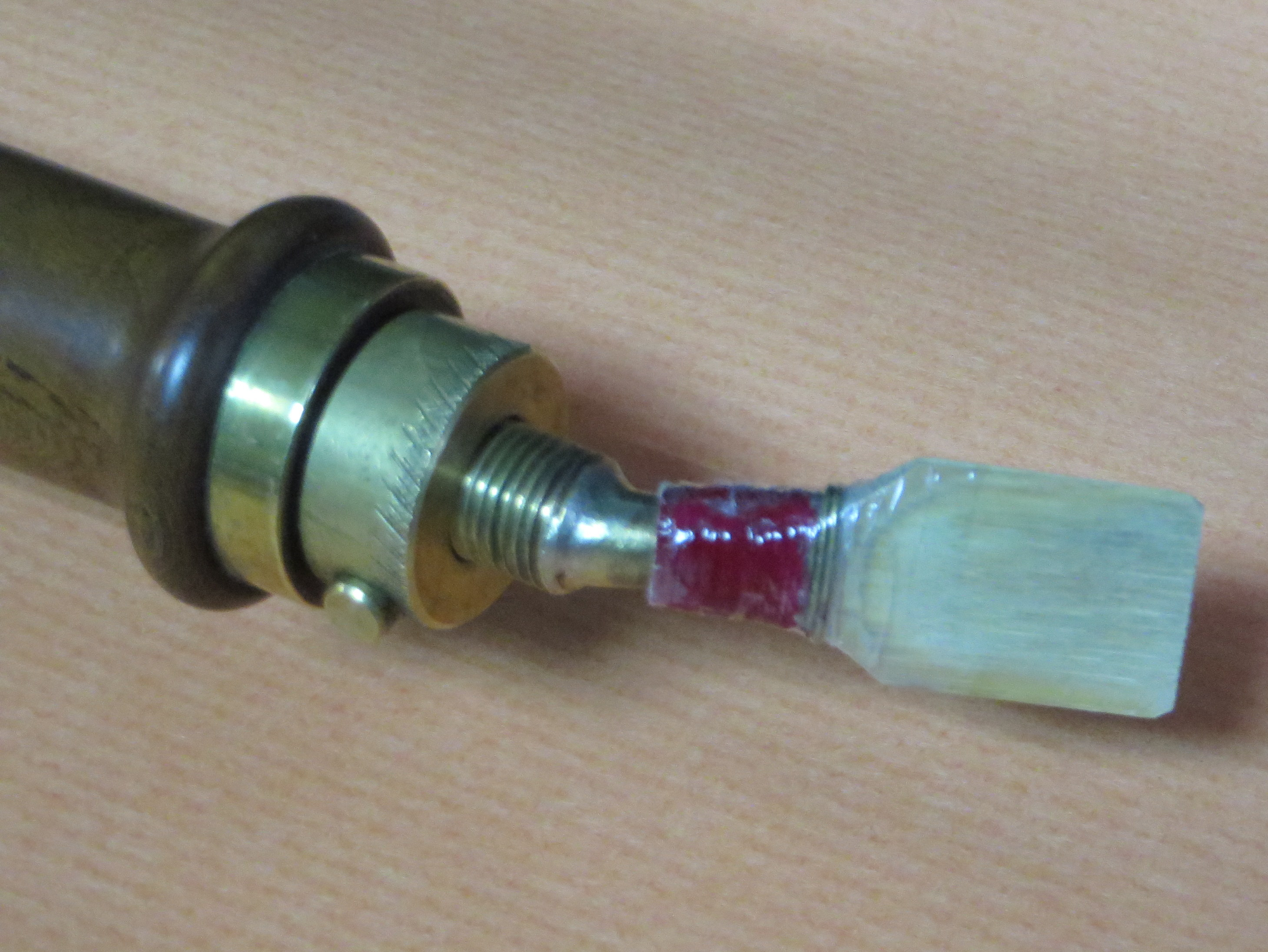 Subbass gralla with an angled tube facing downwards and gralla reed which is also called "de pala" or "quadrada" (squared)